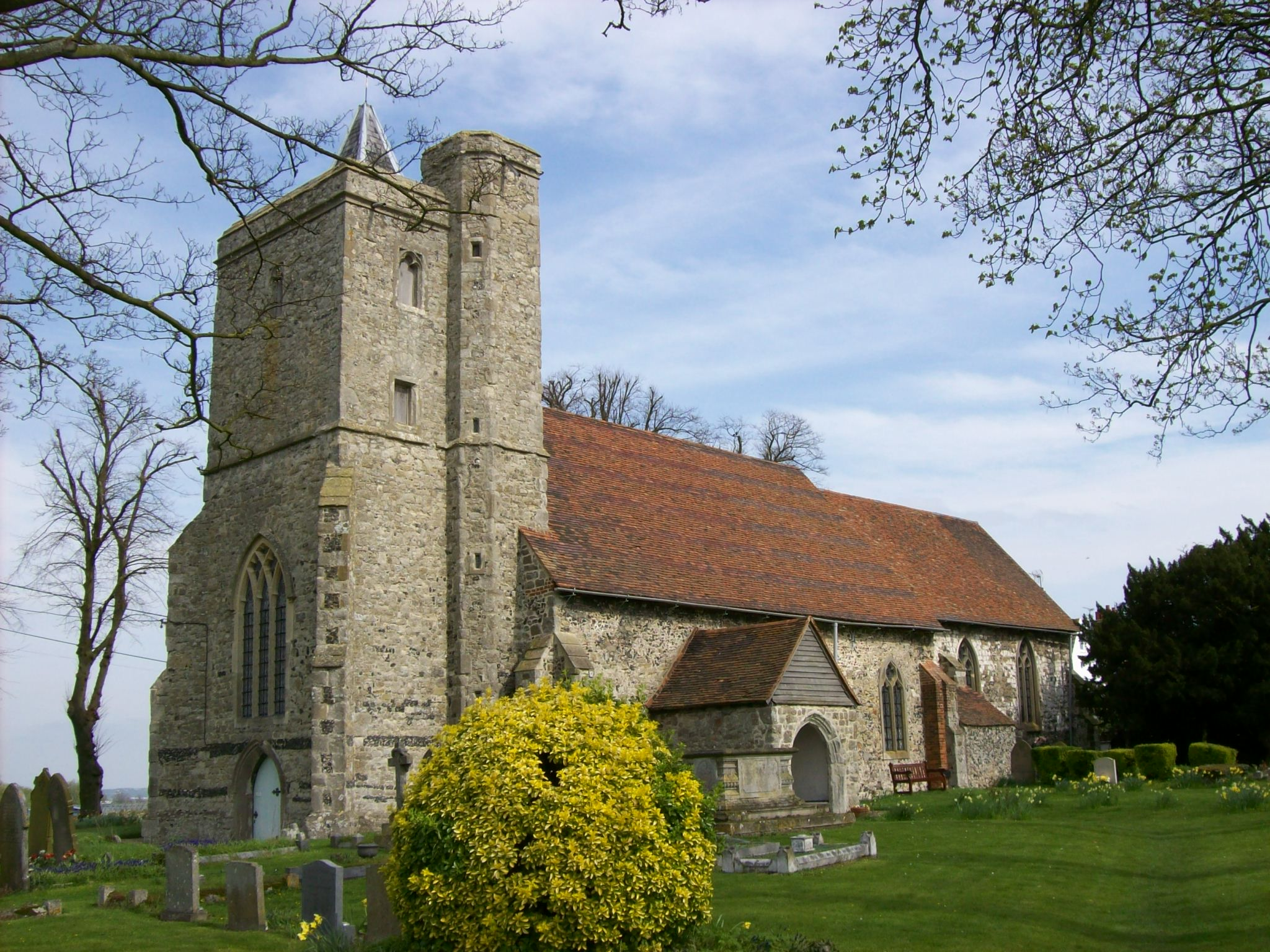 Parish church of St James the Great, Cooling, Kent, seen from the southwest